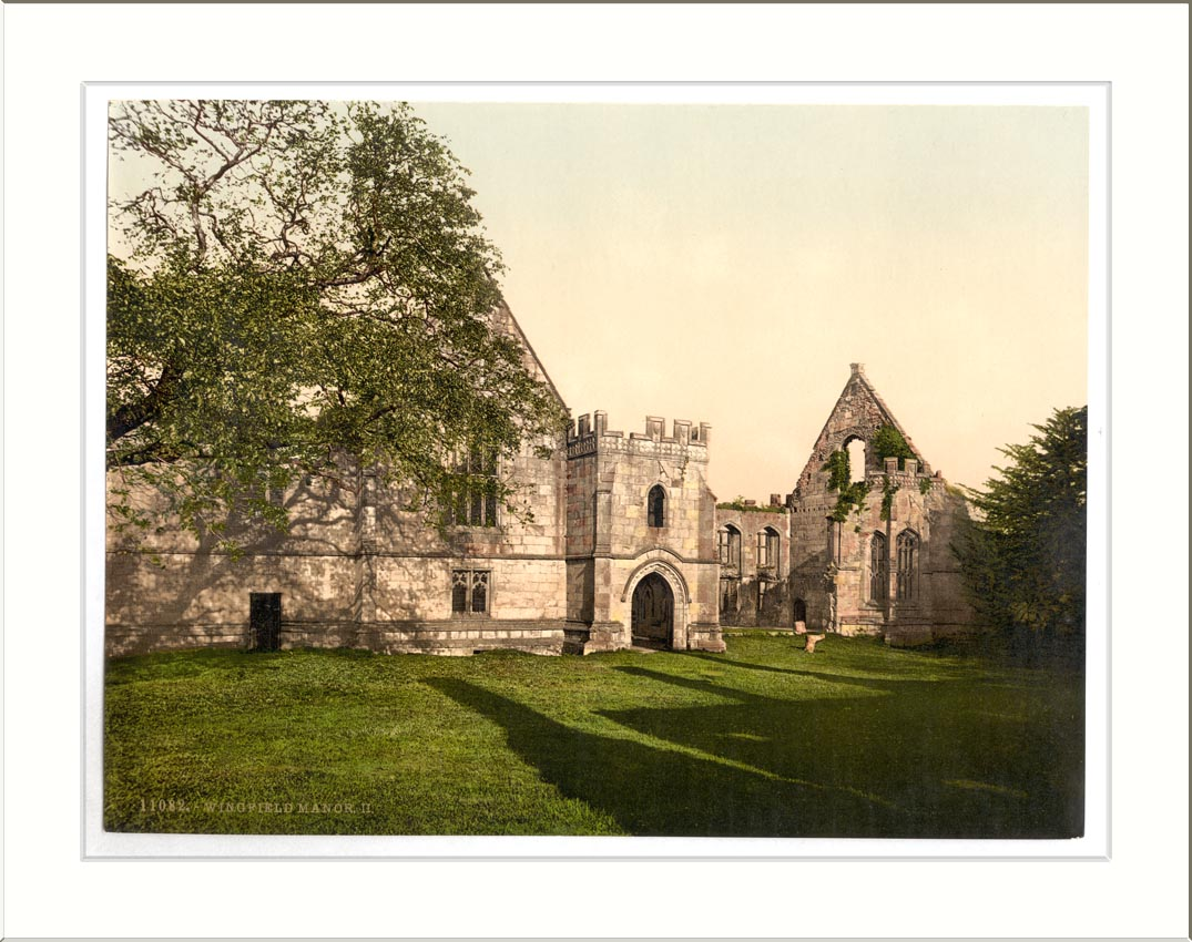 Wingfield Manor II. Derbyshire England